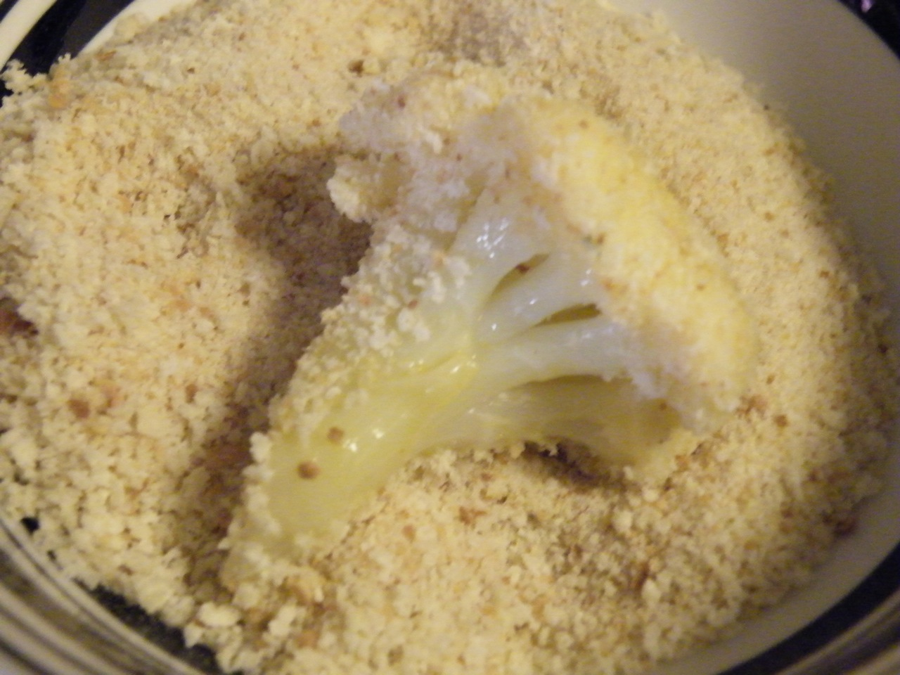 covering cauliflower in bread crumbs before frying